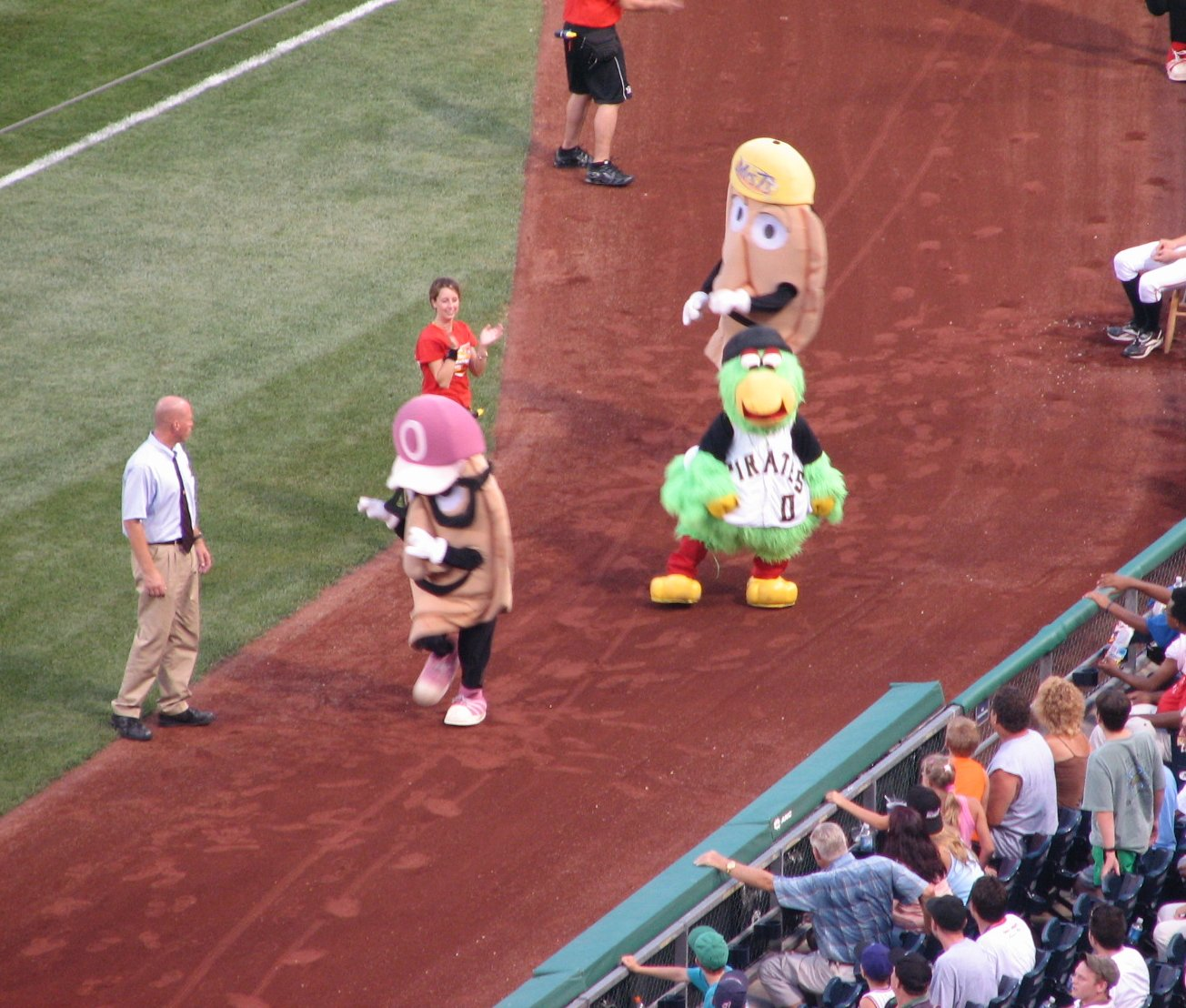 A pierogie race taking place between innings at PNC Park.